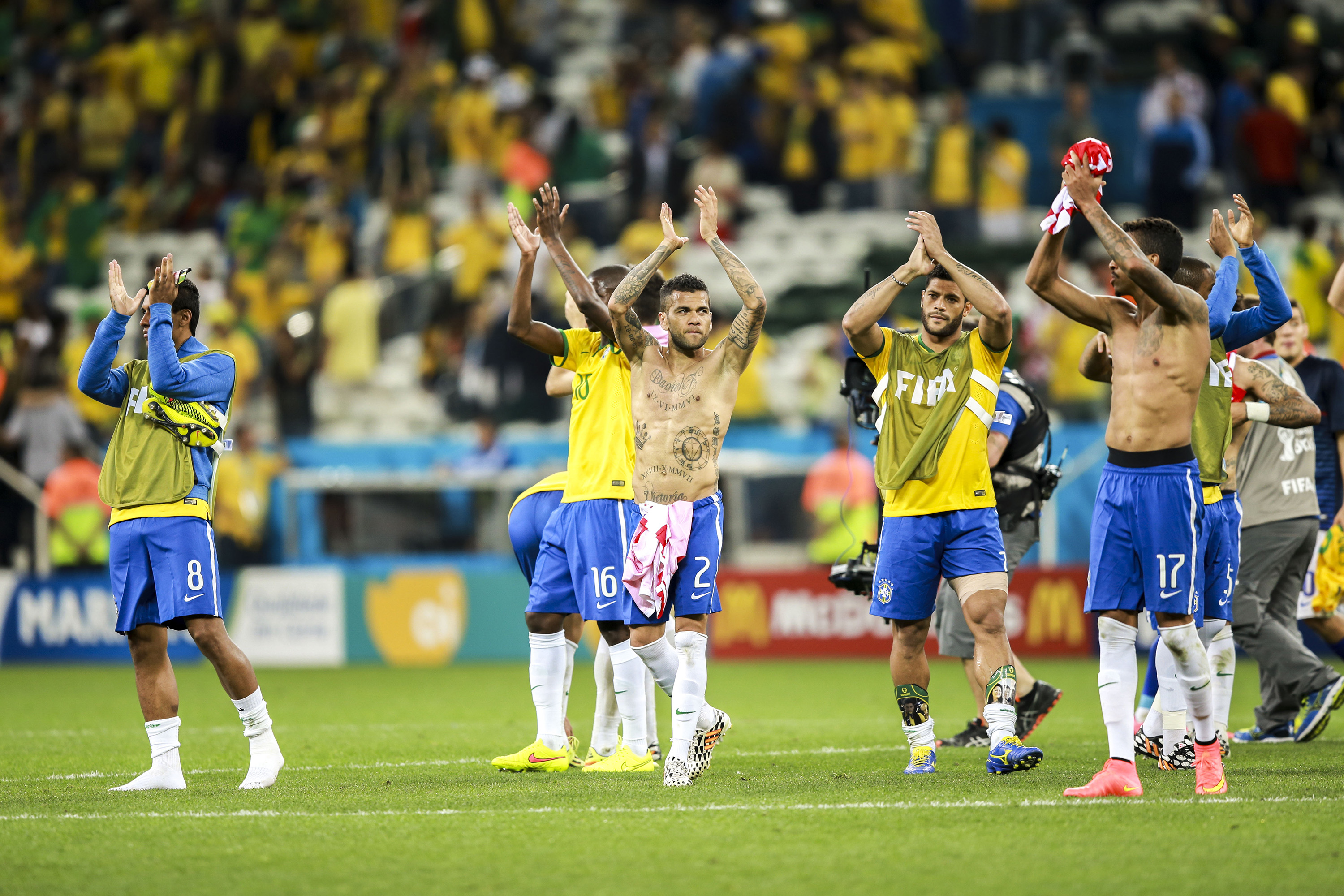 Brazil and Croatia match at the FIFA World Cup 2014-06-12